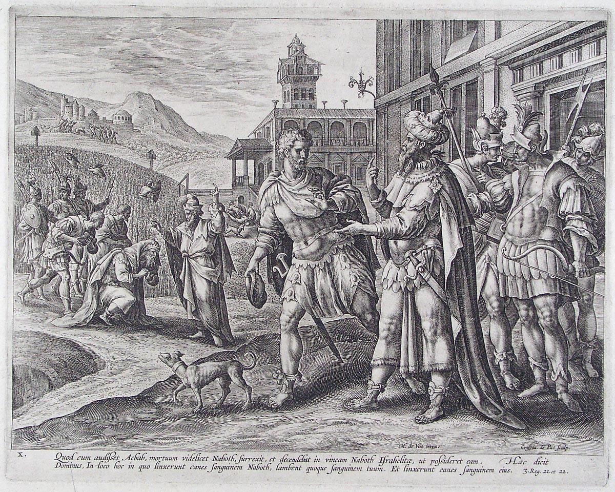 Ahab and Naboth